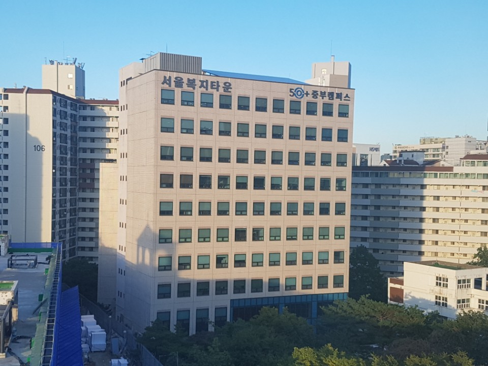 Seoul Welfare Town